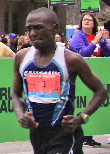 Kenyan runner Joseph Mutinda a few seconds before winning the Austin Marathon in Austin, Texas, United States with a time of 2:14:17, missing the course record by 10 seconds. He collapsed with muscle spasms once crossing the finish line. He was lifted by medical personnel into a wheel chair and taken for treatment. In March 2015, Mutinda was banned from competition for three years for doping and was stripped of his Austin Marathon win.